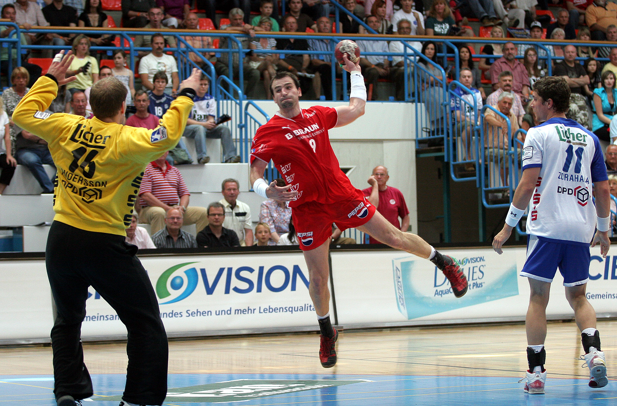 Daniel Valo, Slovakian handball player, of MT Melsungen, on May 23rd 2009 in Aschaffenburg (Germany) during the game TV Großwallstadt vers. MT Melsungen.